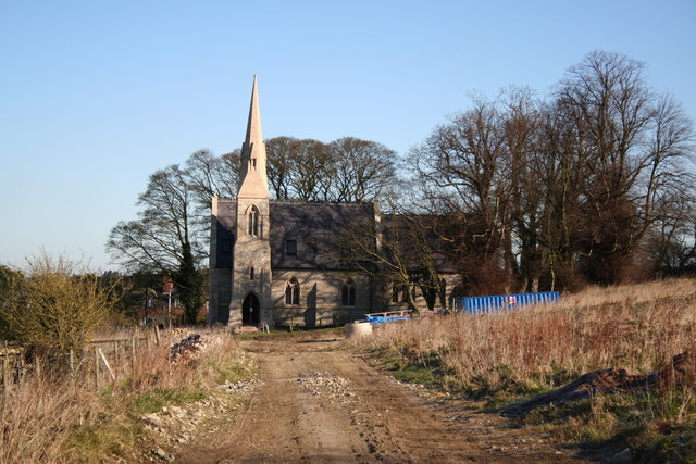 St.Hybald's church, Manton, Lincs. By Hooker & Wheeler in the Decorated style in 1861, seemingly undergoing conversion in 2006